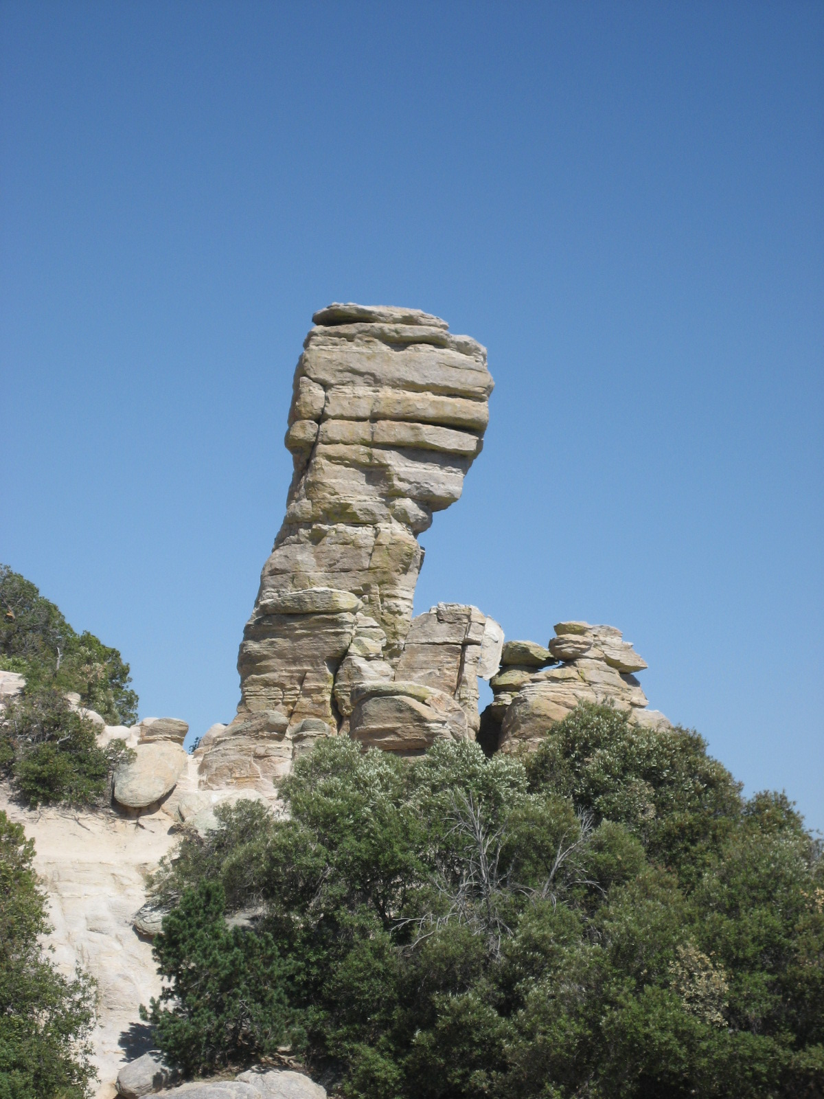 Precarious pillar along Catalina Hiway up Mt. Lemmon